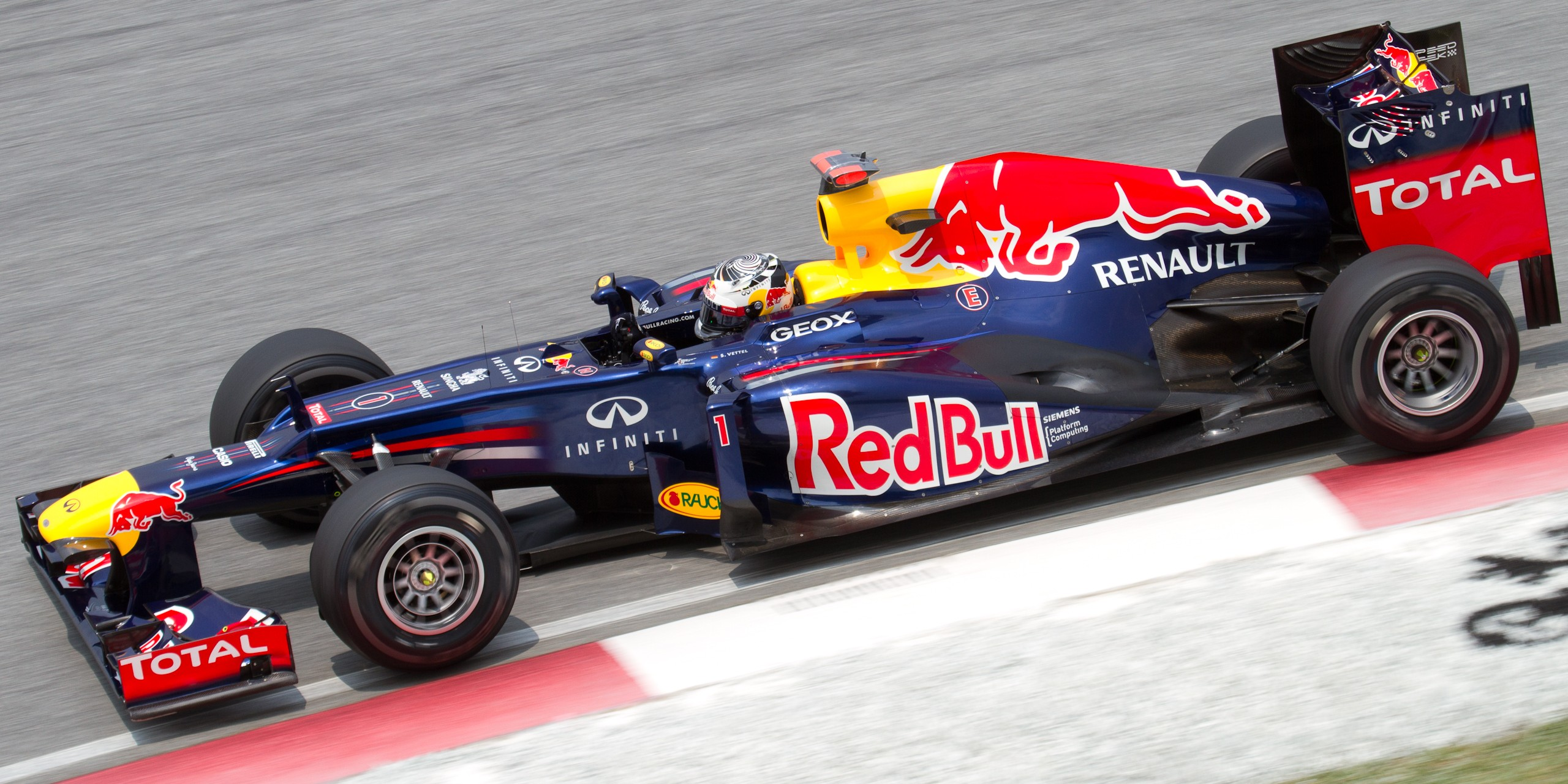 Formula One 2012 Rd.2 Malaysian GP: Sebastian Vettel (Red Bull) during the second practice session on Friday.